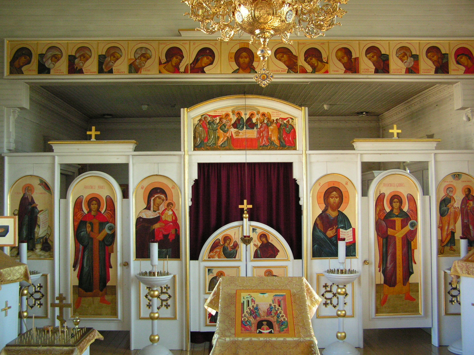 Iconostase of Tornio Orthodox Church, Tornio (Torneå), Finland